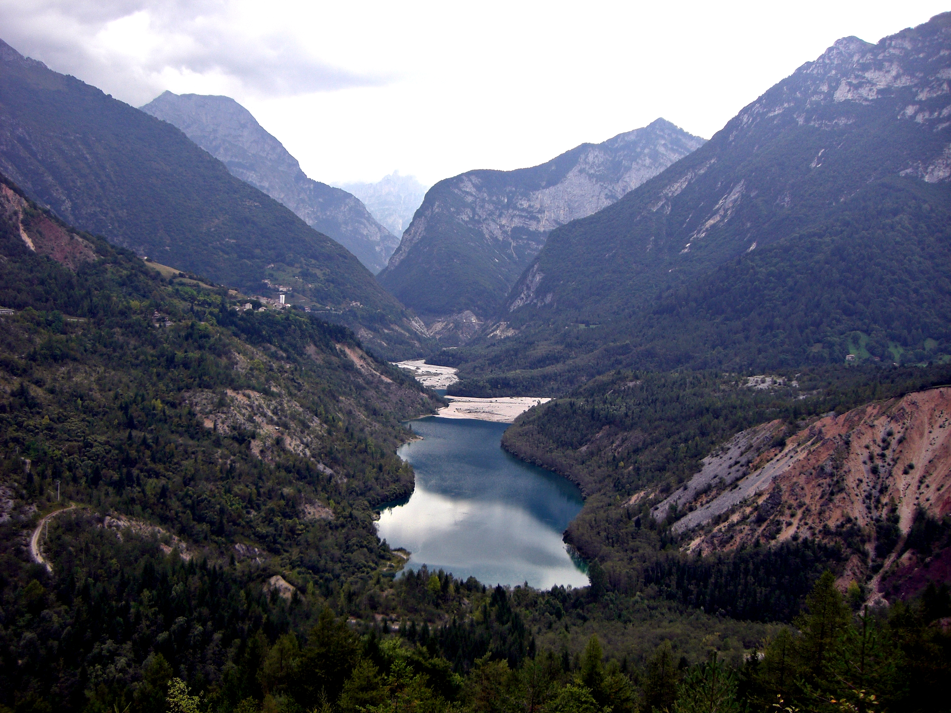 Vajont Lake, Dolomites, Italy, as of Sept. 2009. On the left side, the village of Erto